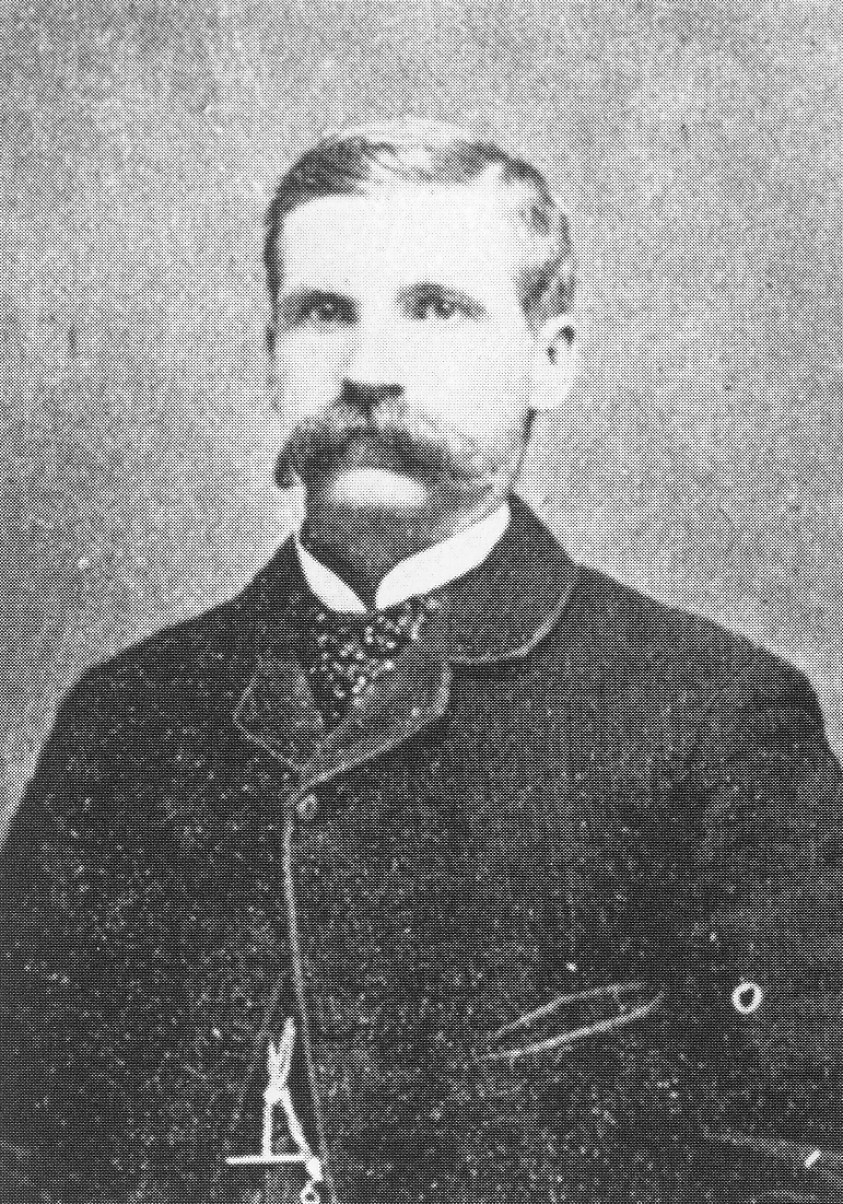 Photo of Donald Morrison, the "Megantic Outlaw".